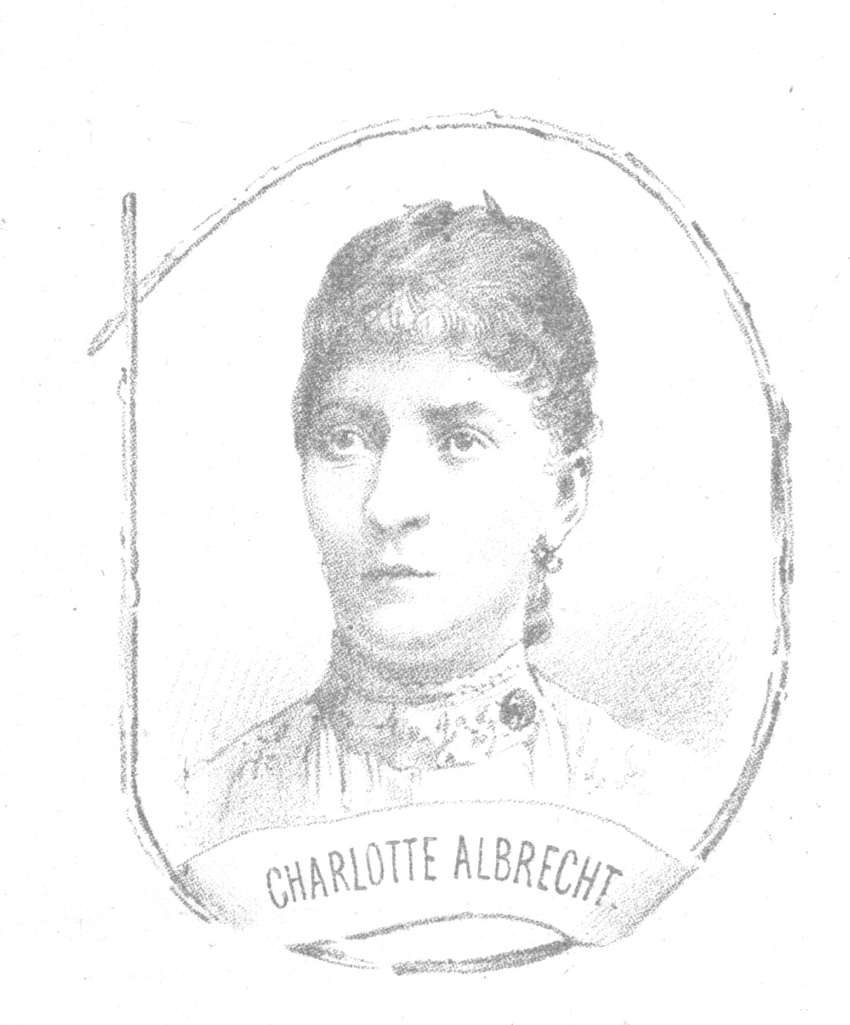 Portrait of Charlotte Albrecht, Austrian actress active in Vienna around 1889-90.